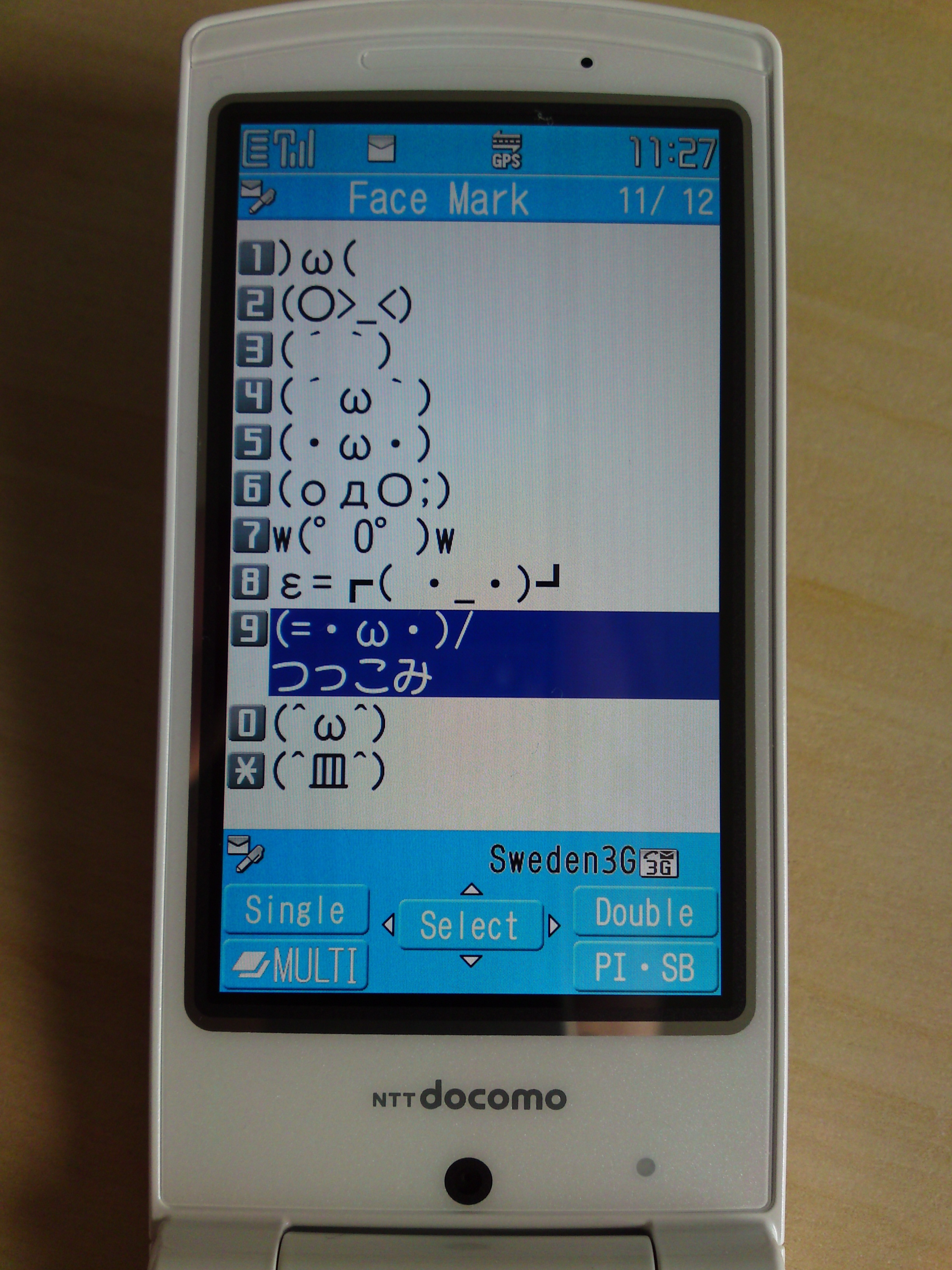 It's all about the smilies :)